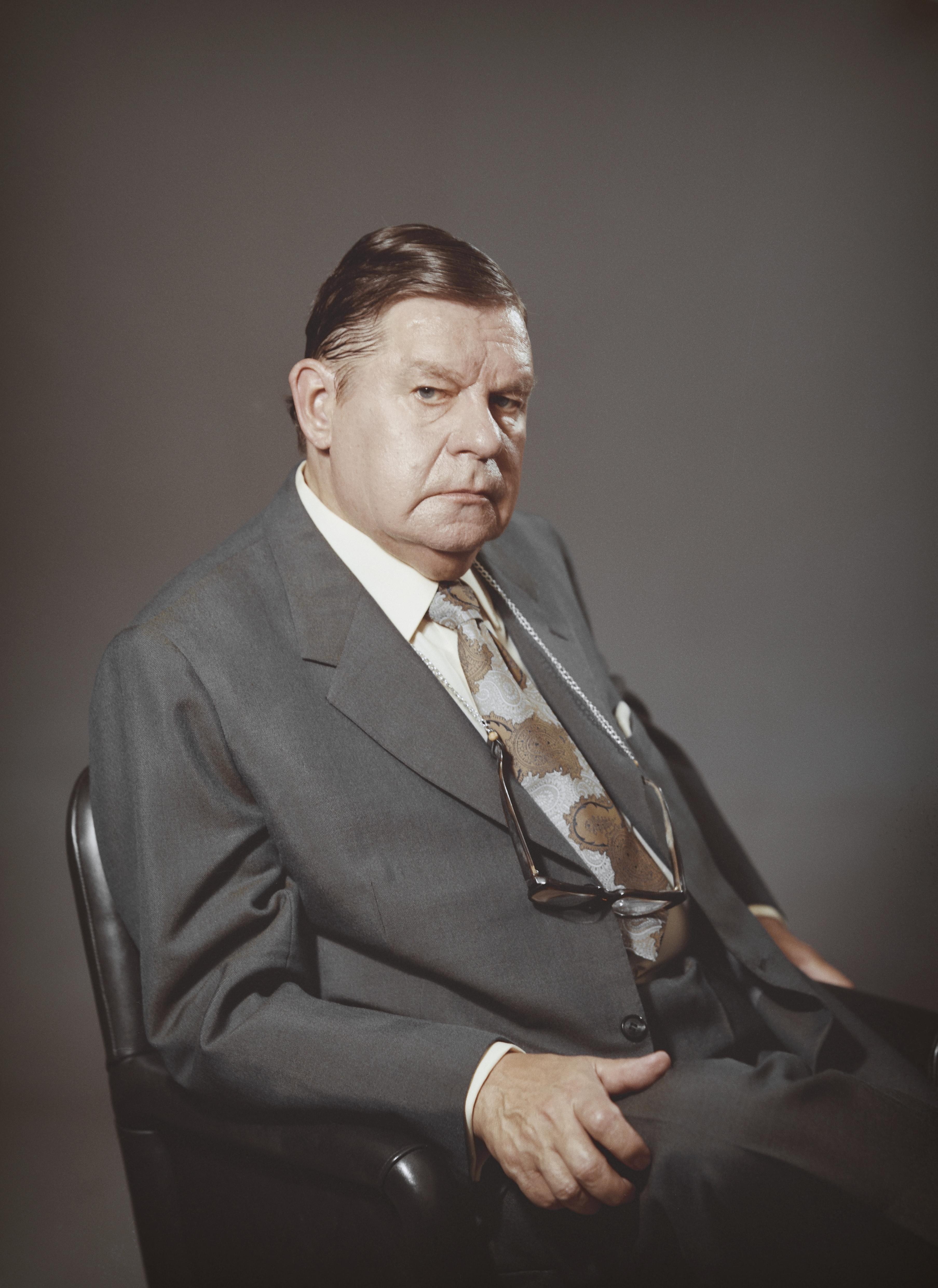 Aarne Karjalainen (1913–1986), founder and director of Hyvon-Kudeneule Oy, Finnish knitwear manufacturing company (1951–1975).